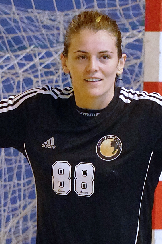 Marija Jovanović, left back from team handball Issy Paris Hand during a test match against the national team of South Korea. On august 12, 2014. Issy-les-Moulineaux, France.